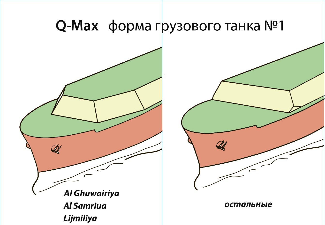 Различия СПГ-танкеров класса Q-max